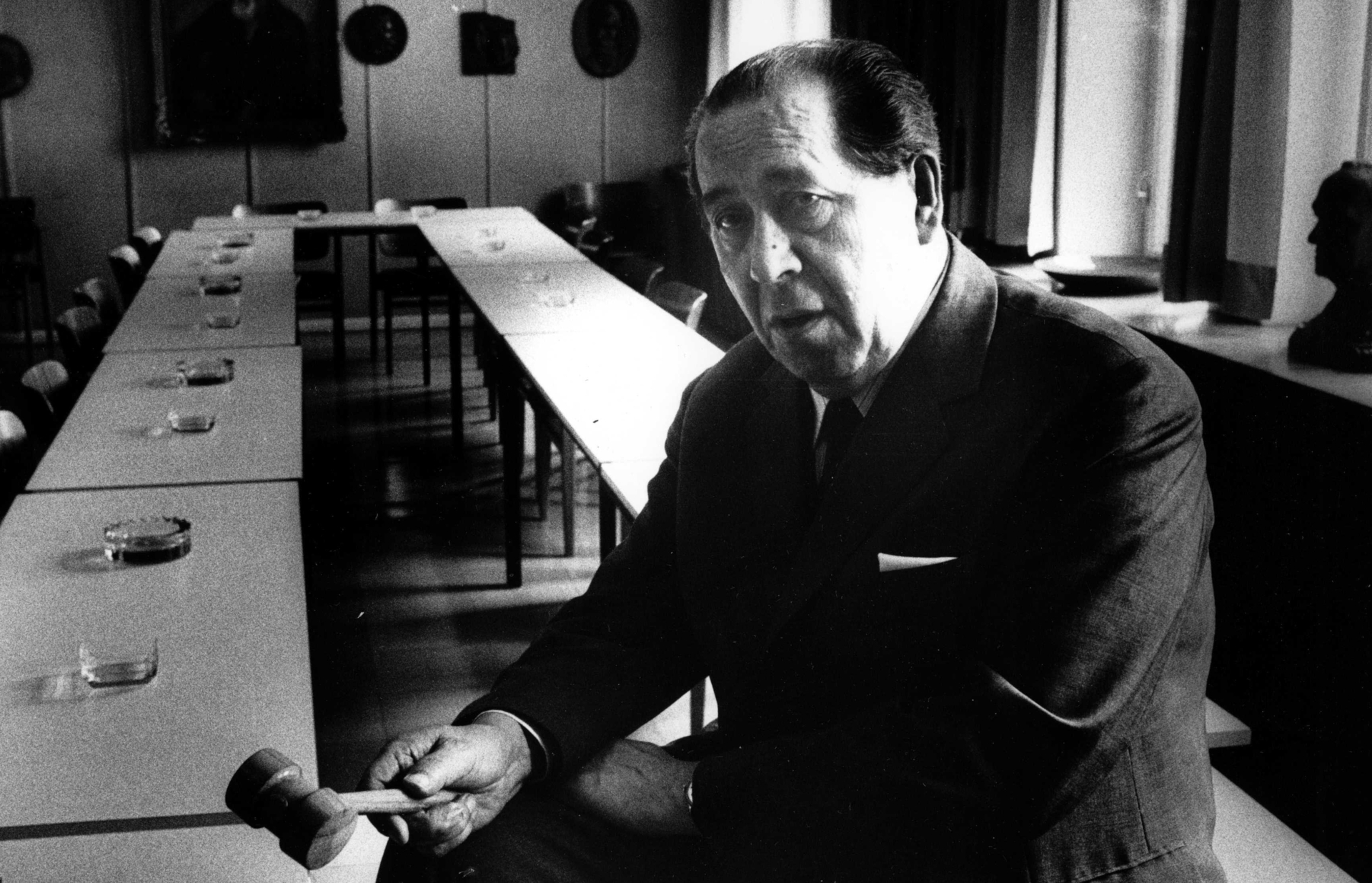 Photograph of the Finnish politician Rafael Paasio (1903–1980).